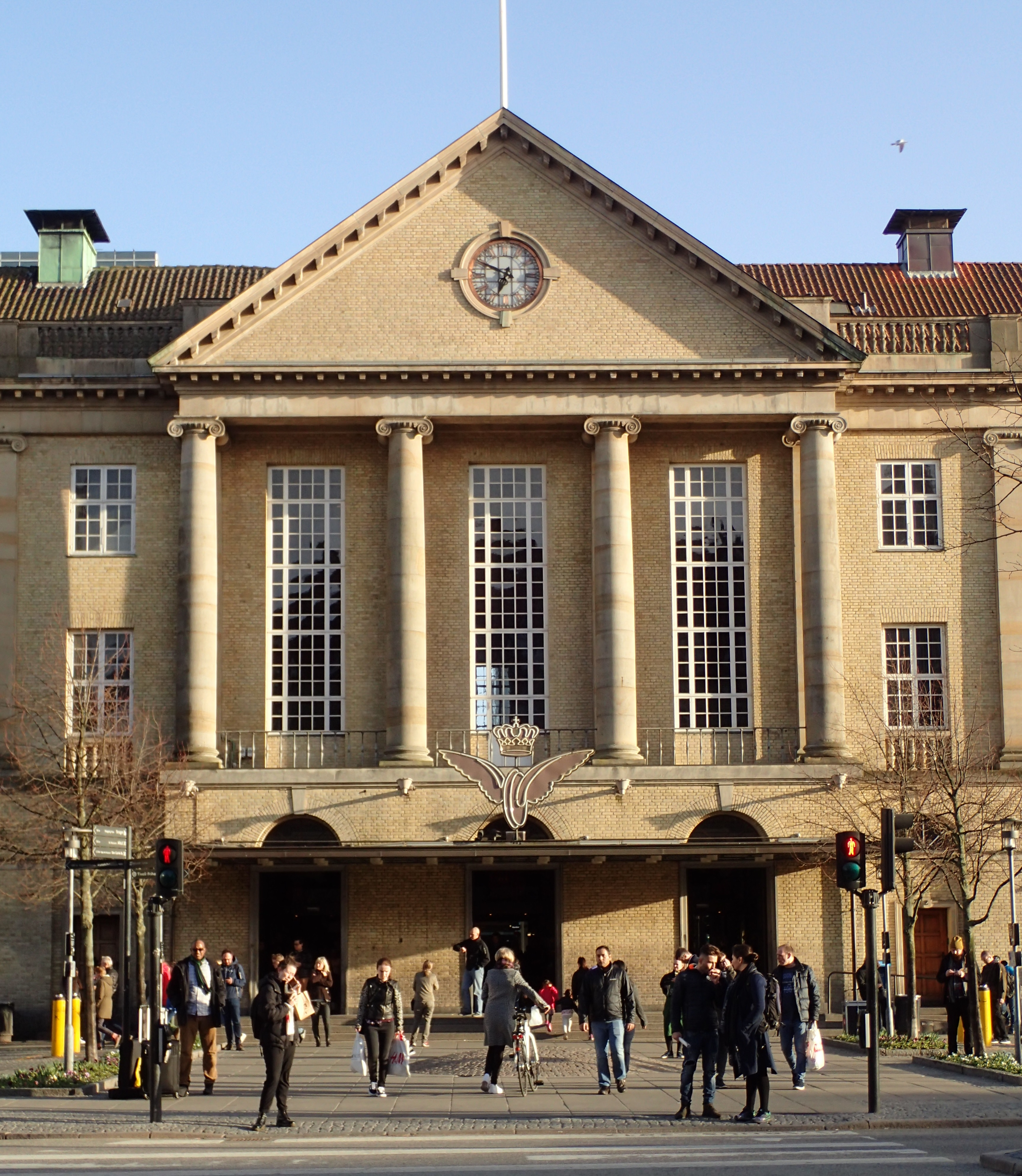 Aarhus Hovedbanegård